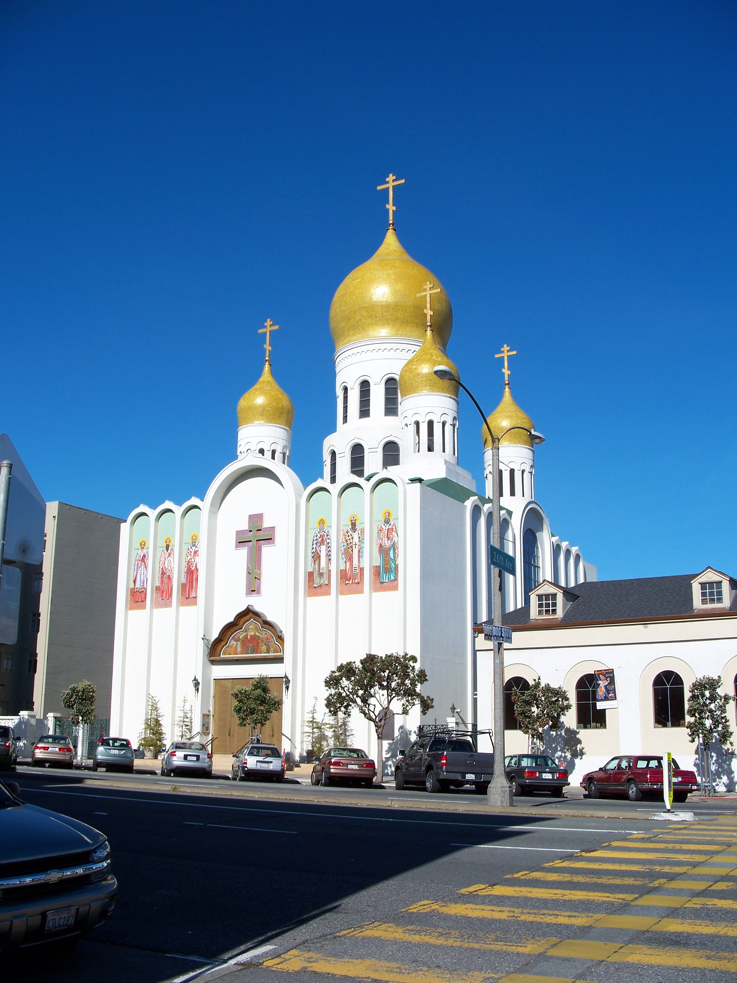 Cathedral of Holy Virgin. San Francisco, California, USA